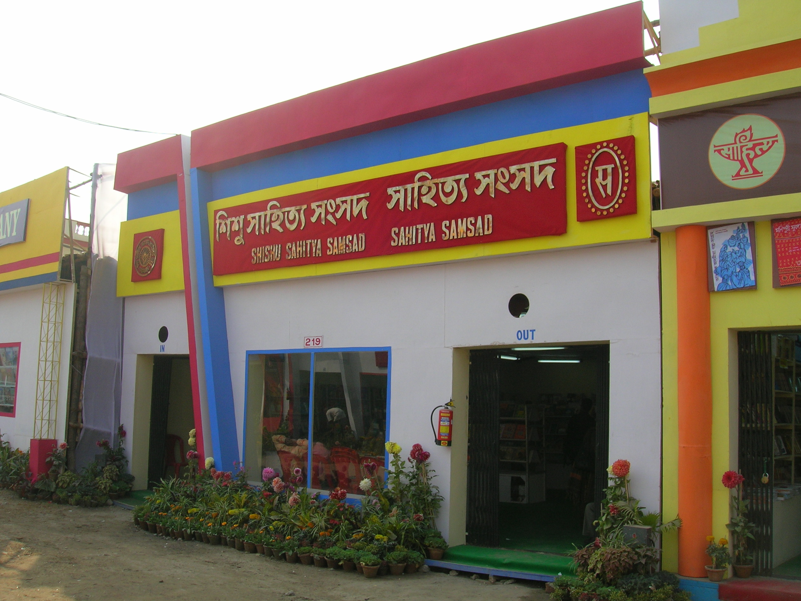 Sahitya Sangsad stall at Kolkata Book Fair 2009